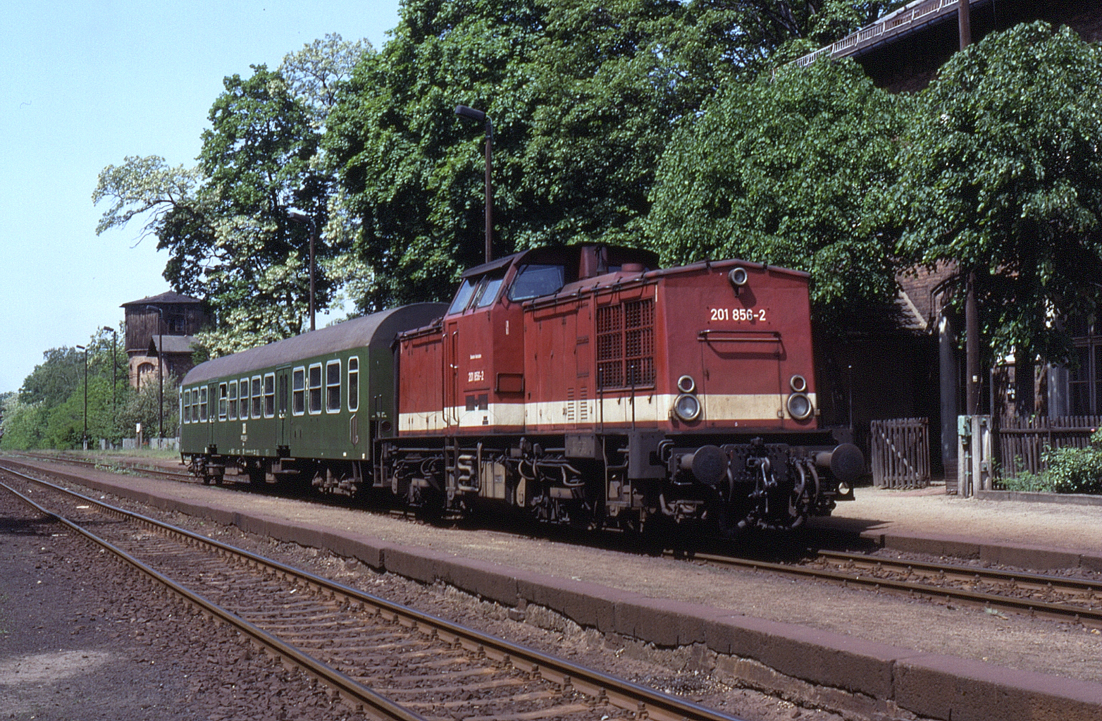 Single coach and class 201 are seen during a prolonged station stop at Uhyst on 28 May 1992. Train 6433, 11:22 Hoyerswerda to Horka.